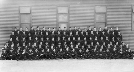 AWM Caption: A group portrait of the members of two training courses at 1 Operational Training Unit (1 OTU). The front three rows are Beaufort crews, while the back three rows are Hudson crews. There were 12 Hudson crews that attended the No 2 Hudson Operational Training Course, which commenced on 11 August 1942 and was completed on 6 October with all crews finishing successfully. Identified, fourth row, ninth from left is 415152 Pilot Officer (PO) Ray Kelly who was trained by 250528 Flight Lieutenant (Flt Lt) David Campbell DFC. Both pilots flew 1 OTU's Lockheed Hudson A16-105 aircraft (now in the Australian War Memorial's collection). PO Kelly flew A16-105 during training and Flt Lt Campbell as an instructor and flying supplies to the troops at Buna and Sanananda, Papua, during December 1942 to January 1943, while attached to 1 OTU Detached Flight. In the row second from the rear, fifth from left is 407242 Flying Officer (FO) Mervyn William Johns, who was posted to 2 Squadron RAAF and shot down by Japanese fighters in Hudson A16-210 aircraft over Timor on 27 December 1942.